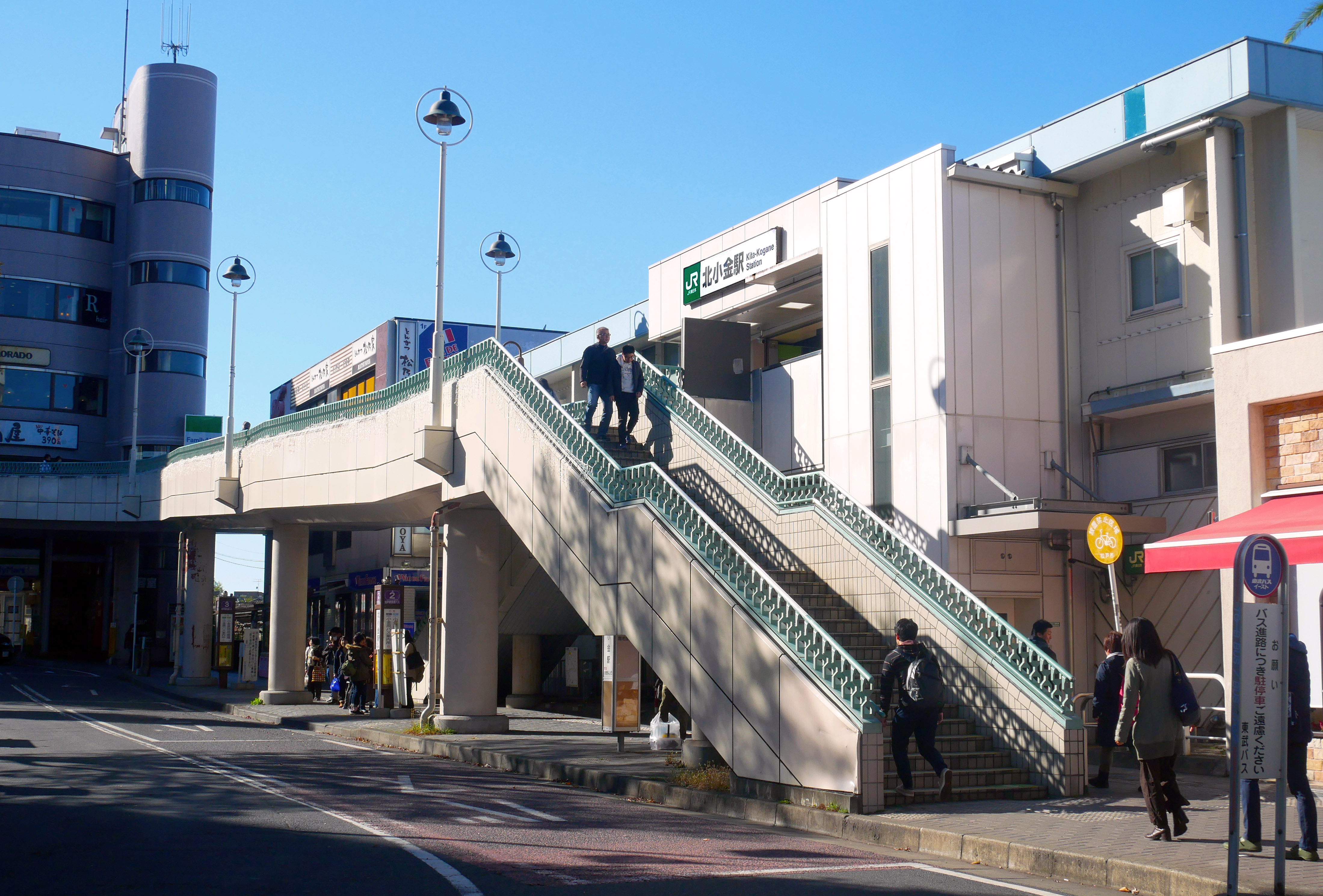 北小金駅の南口 (Kita-Kogane Station south exit) !Panasonic Lumix DMC-GX7 Mark II